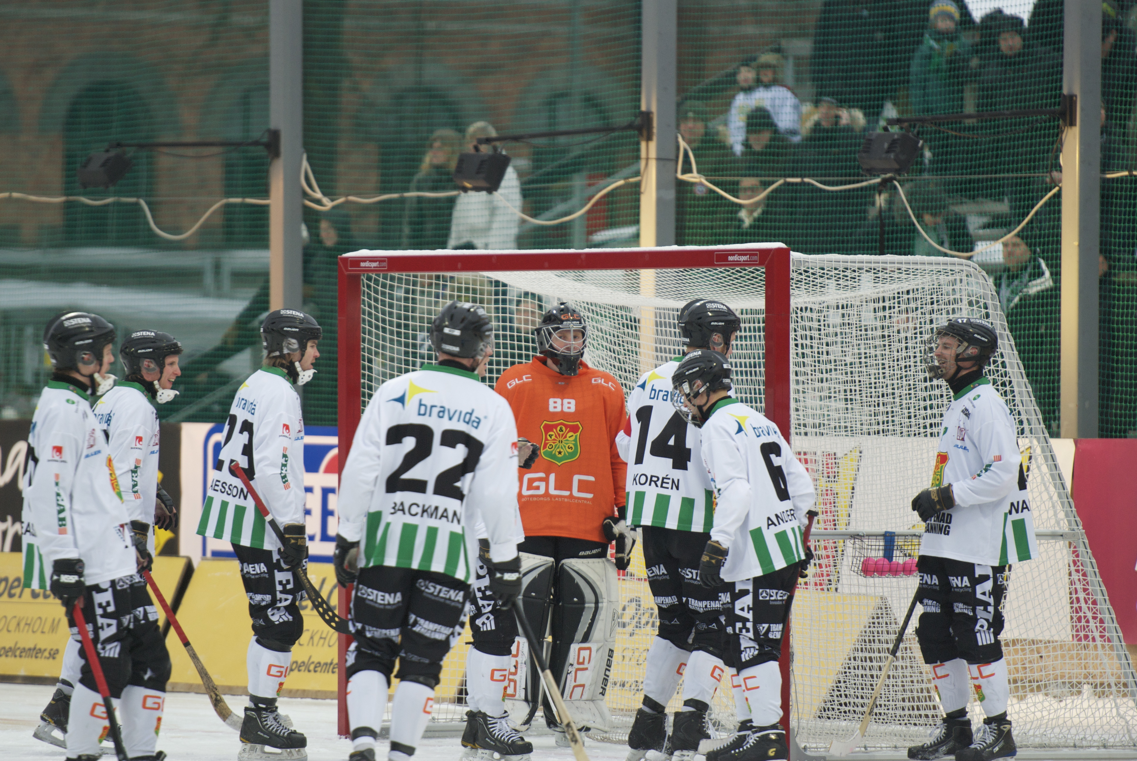 Bandy match between Hammarby (Green) and GAIS (White) in Elitserien, Zinkendamms IP (Stockholm) 2012-02-11.